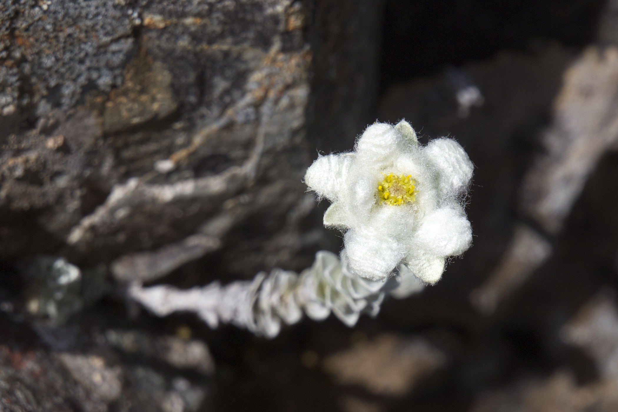 South Island edelweiss (Leucogenes grandiceps), Hooker valley, New Zealand